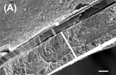 Photo of scanning Electron Microscopy of the shell micro-scale structure of MS-ecophenotype Notodiscus hookeri. Full white circle is outer periostracum. Double white line is an organic layer. Thick white line is the innermost mineralised layer. Scale bar is 10 µm.